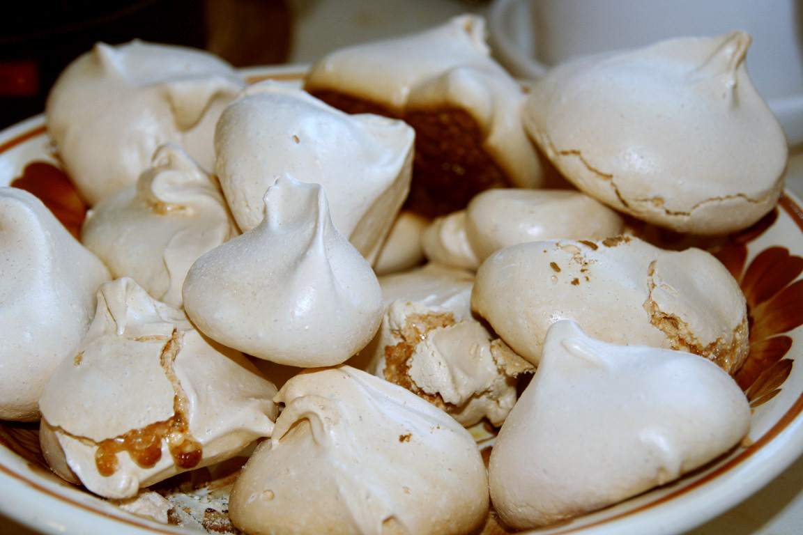 Home made